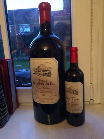 A standard (750ml) Burgundy bottle next to its less common McKenzie (5L) counterpart